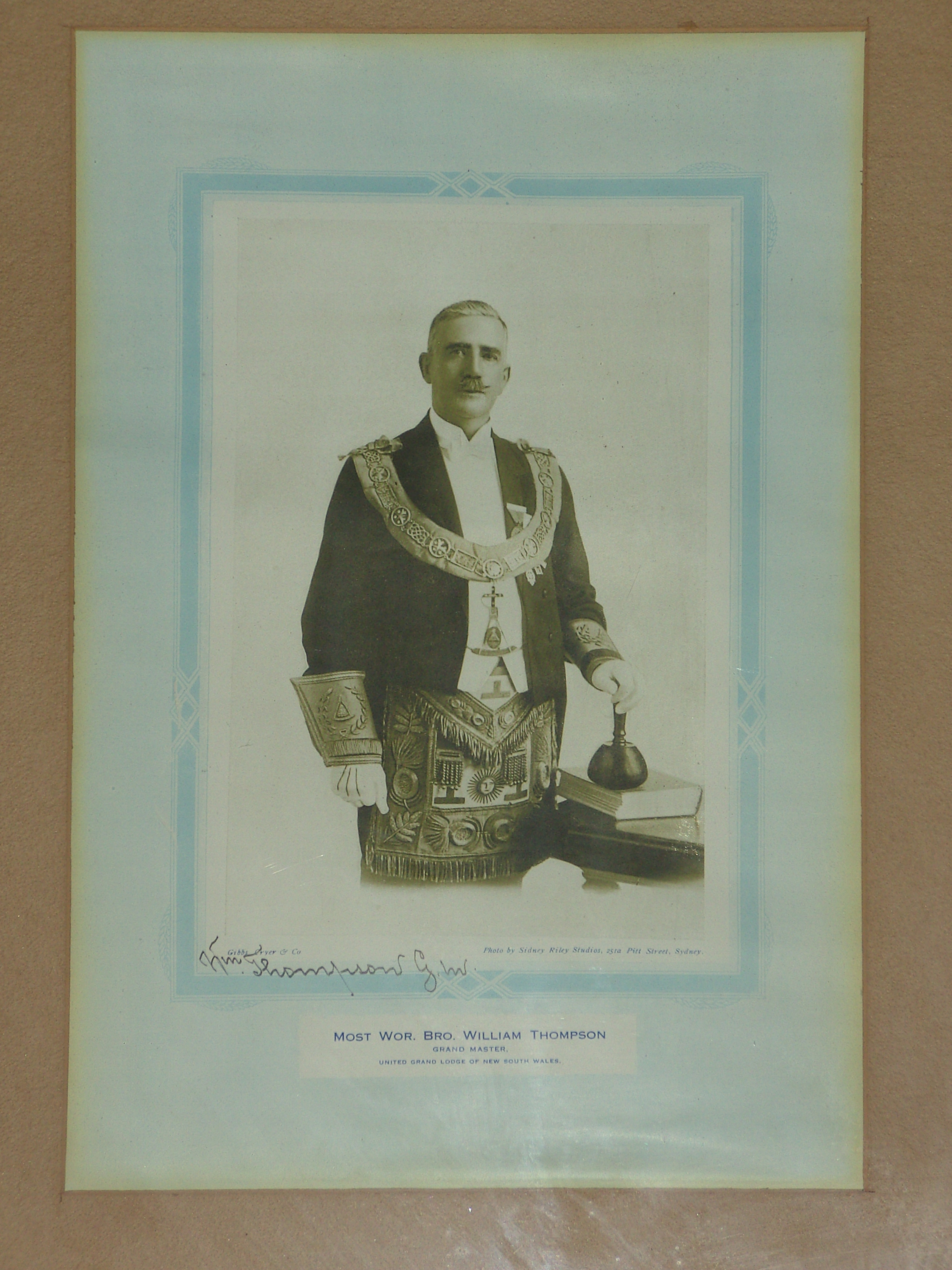 Grand Master of the United Grand Lodge of New South Wales, Most worshipful Brother William Thompson, circa 1913-14. Sited: Queanbeyan, New South Wales. Note the signature of William Thompson.